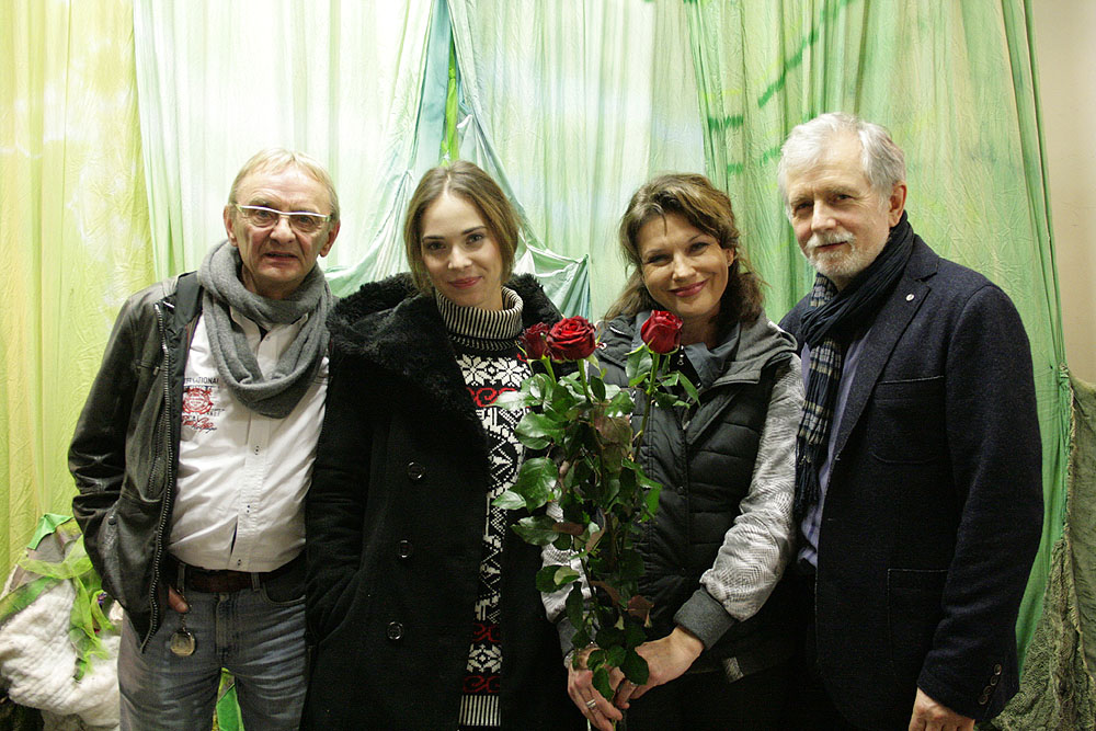 "Kochaj albo rzuć"; Agencja Artystyczna Jerzy Bończak KOMEDIE; Obsada: Maria Pawłowska, Katarzyna Jamróz, Jacek Bończyk, Cezary Morawski, Przemysław Sadowski (Tarnobrzeg 03.12.2015).